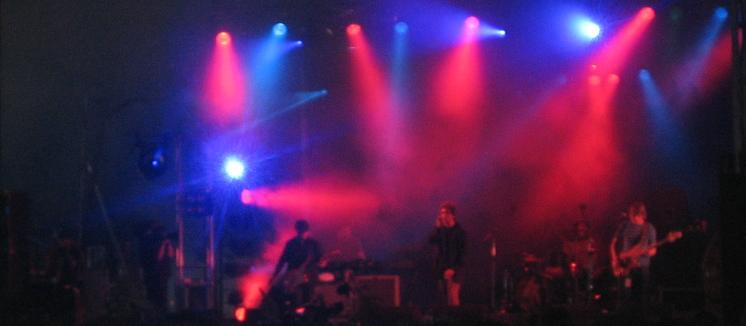 Echo and The Bunnymen performing at the "T in the Park" festival in Kinross, Scotland.